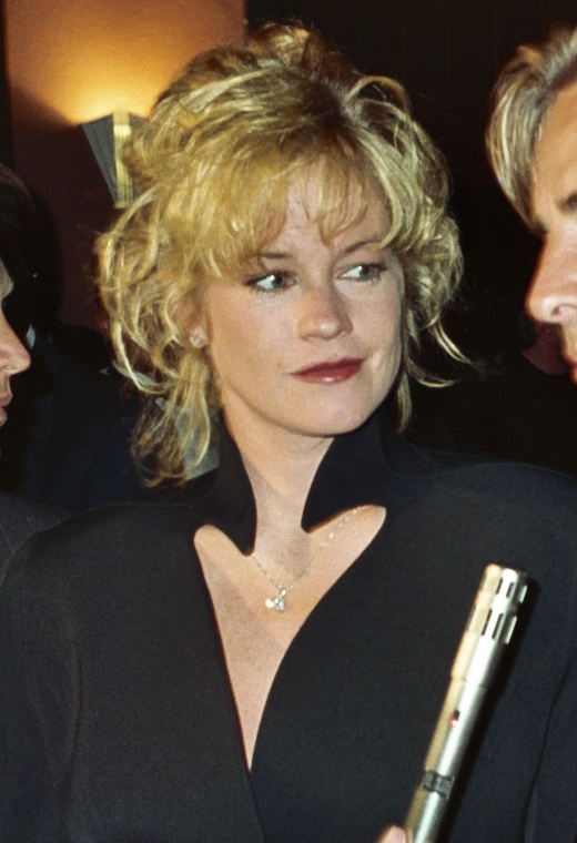 Melanie Griffith at the APLA benefit, 9/7/90 (revised)